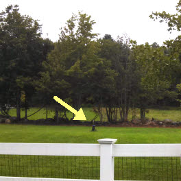 A view of the stake marking the southernmost point of the "Southwick jog" in the Massachusetts-Connecticut boundary. An arrow points to the stake. Cropped from File:Southwick-stake.jpg.